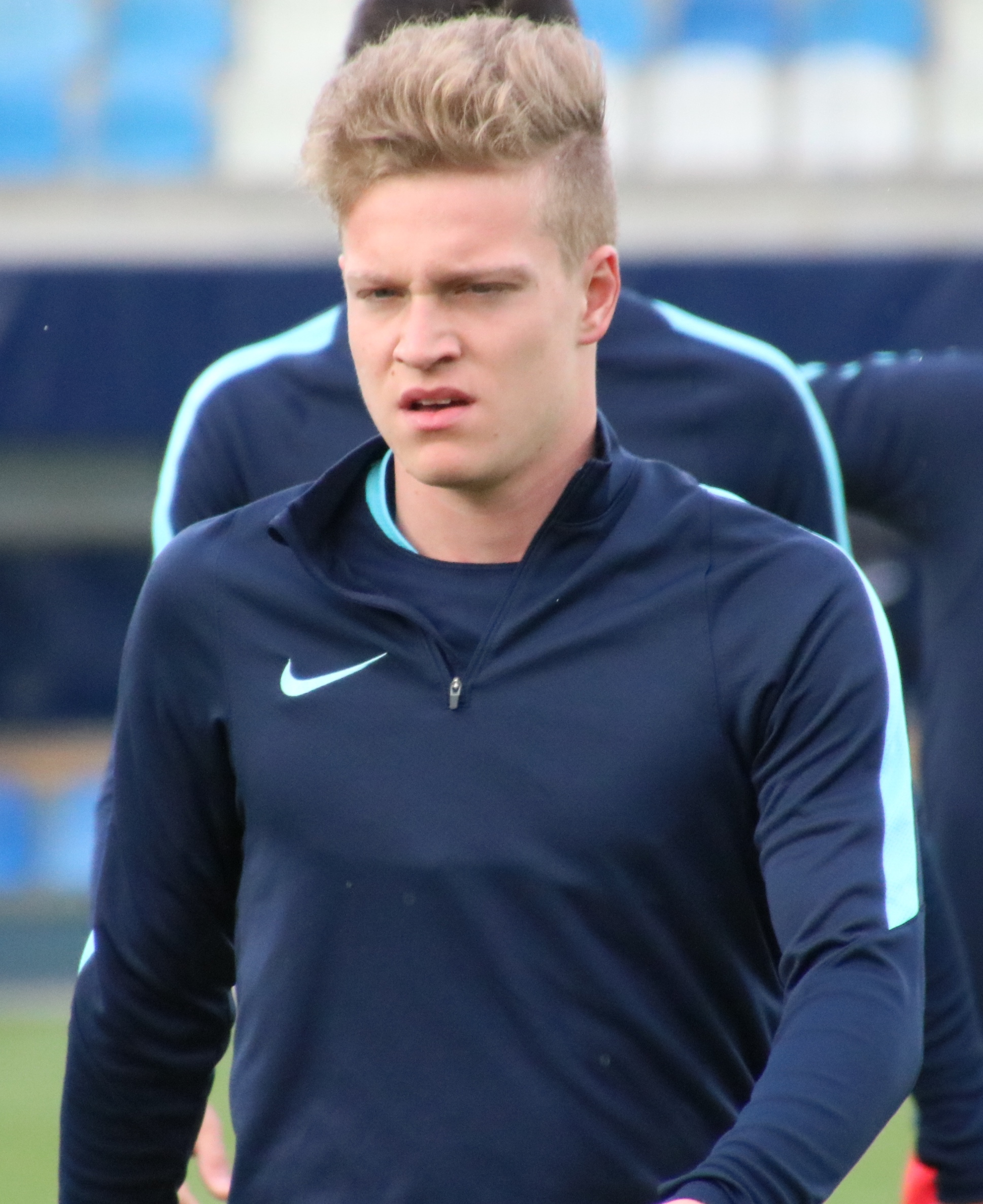 league match Austria 2nd league